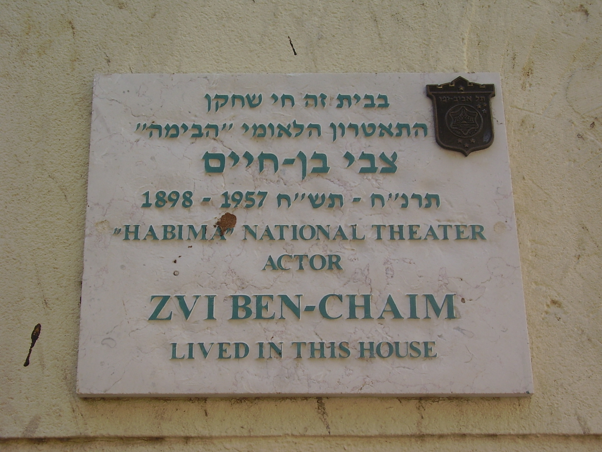 memorial plaque on the actor zvi ben-chaim in tel aviv לוחית זיכרון על ביתו של השחקן צבי בן חיים ברח' גורדון בתל אביב